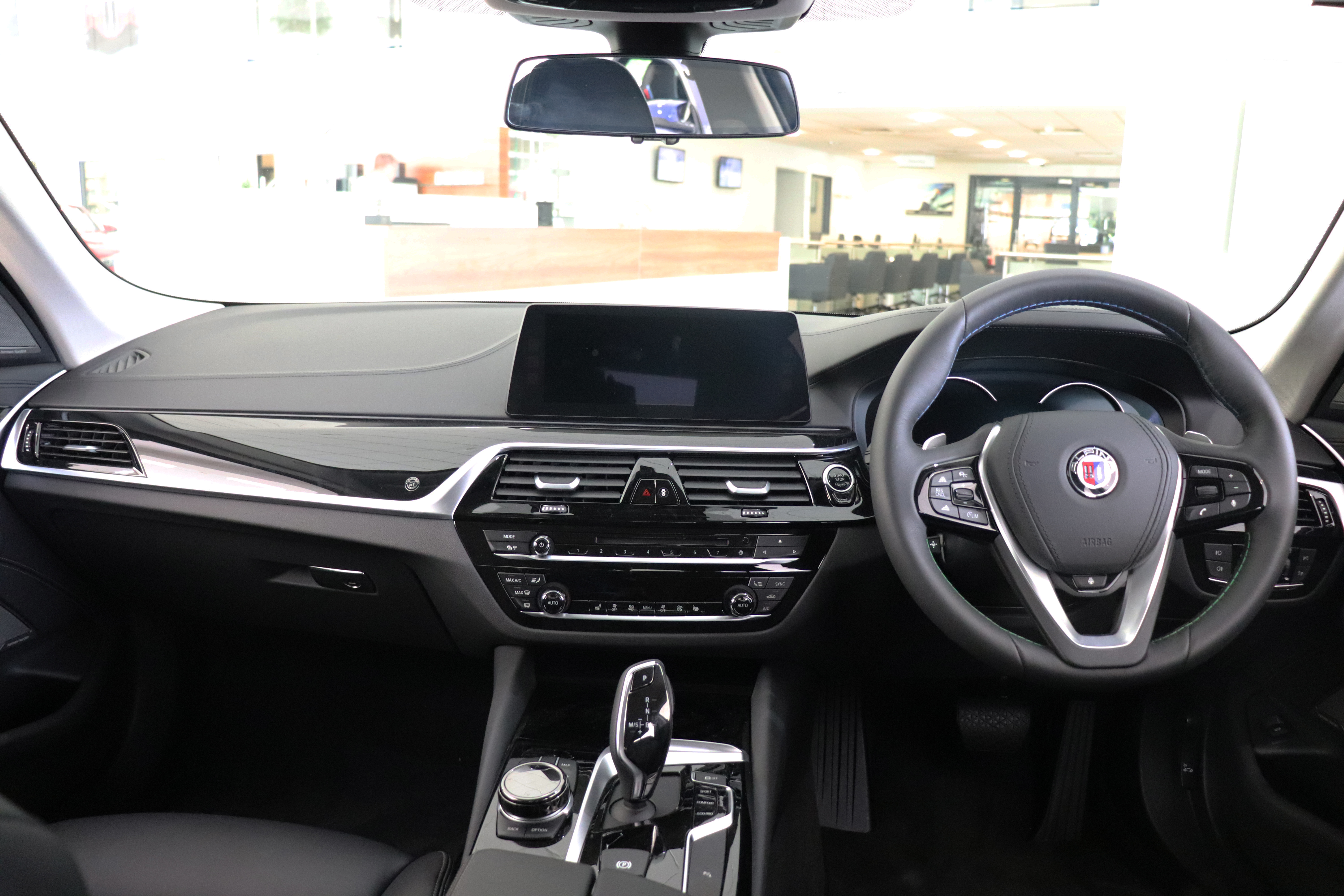 2018 Alpina D5 S 3.0 Interior Taken in Solihull